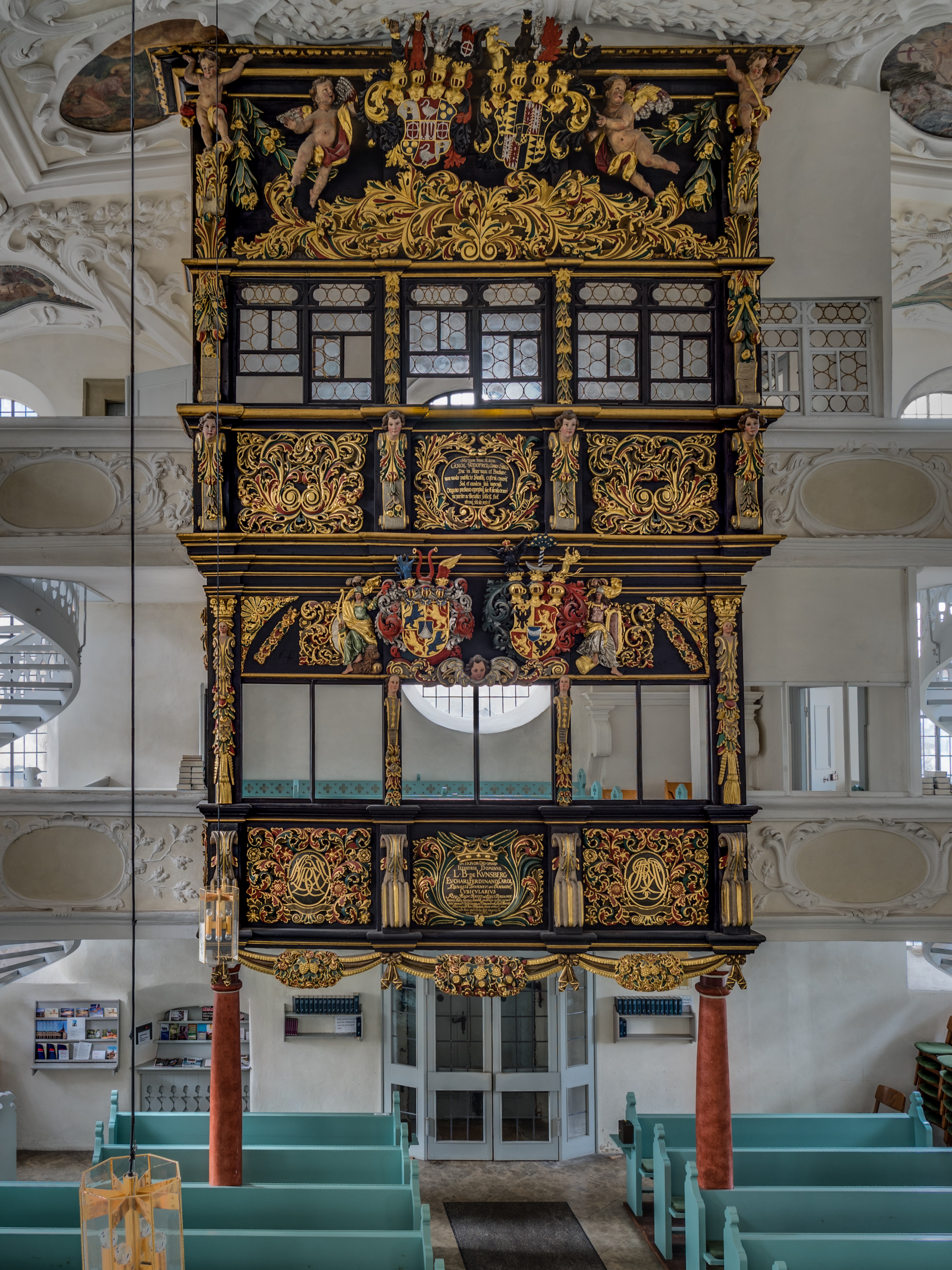 Patronats lodge in the Protestant church St.Laurentius in Thurnau